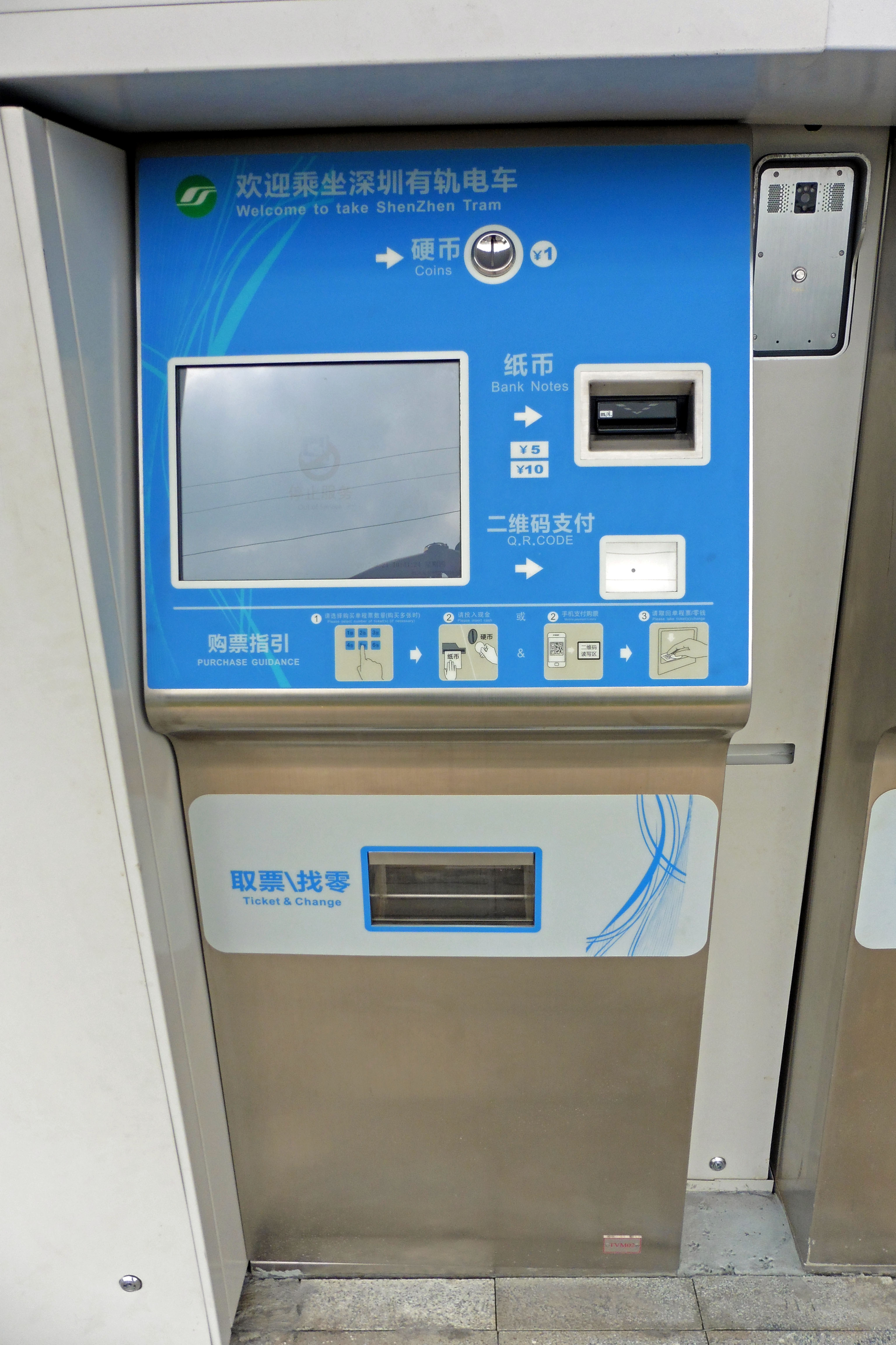 Ticket Vending Machine of Shenzhen Tram 中文（中国大陆）: 深圳有轨电车自动售票机